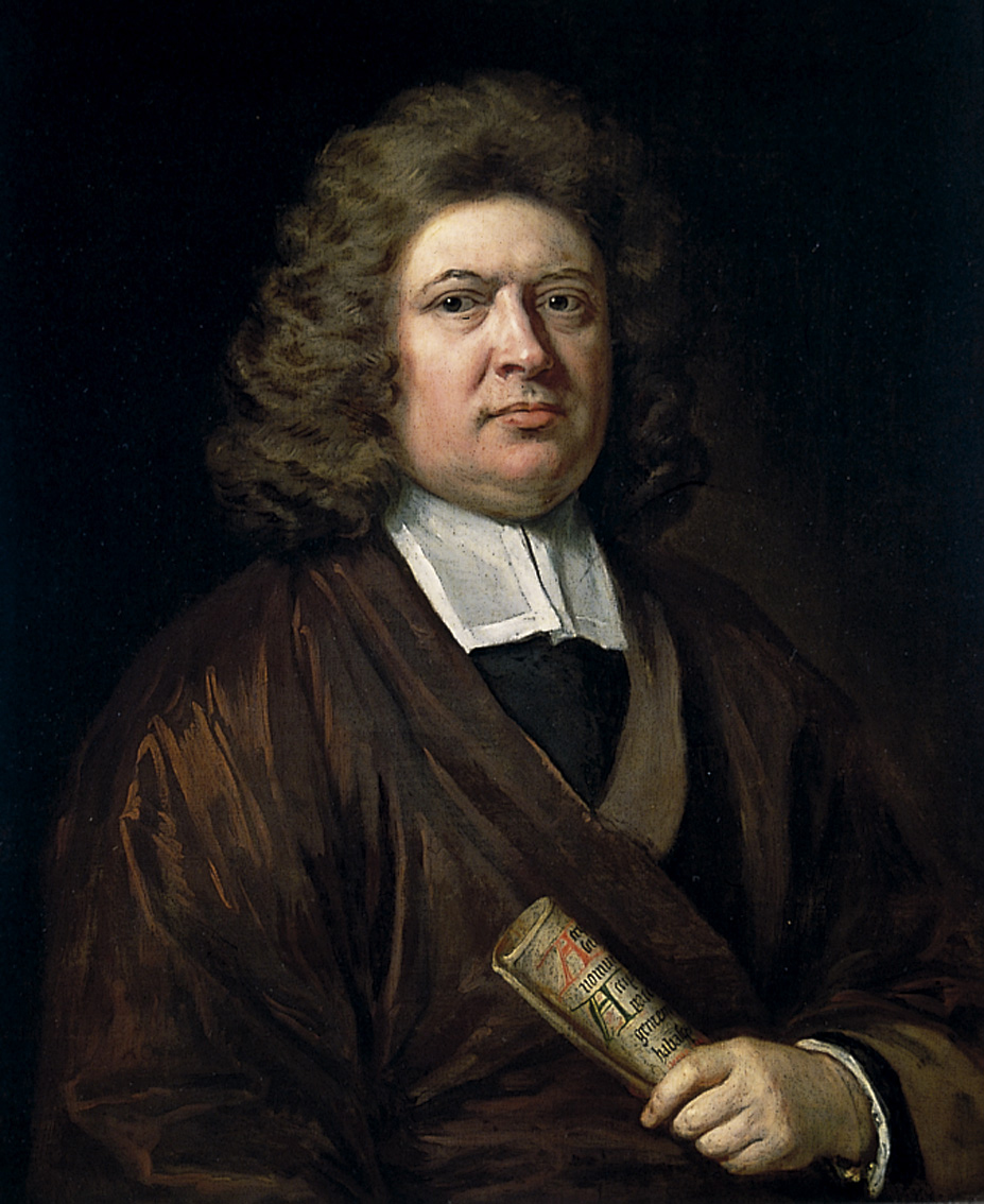 Half-length figure facing half-right: he holds in his left hand a scroll on which the beginnings of a few words are readable: NOMIN/ACCIP/PAR/GENTEM/ACCIP/PAR HABALG...He wears a brown gown with white bands.